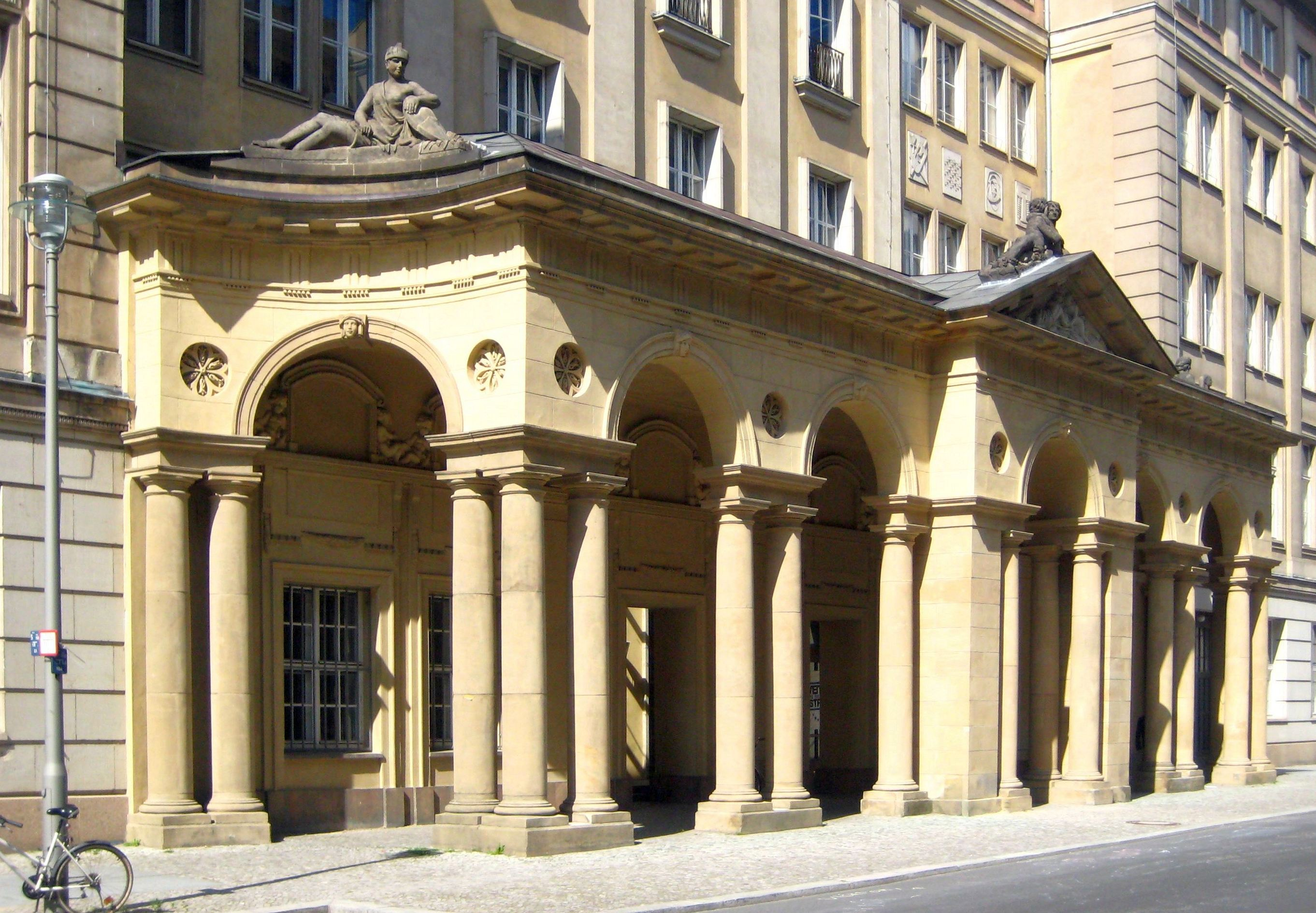 Mohrenkolonnade (Moors' Colonnade) on the northern side of Mohrenstraße in Berlin-Mitte, built 1787 by Christian Friedrich Becherer to a design by Carl Gotthard Langhans. An analogous colonnade is on the other side of the street. Of Berlin's once four bridge colonnades, these are the only ones preserved at their original site. They were erected on the bridge that used to cross the city's moat here. Their ornaments are by Pierre A. Tassaert and Johann Gottfried Schadow. Since the early 19th century, small shops were located here. The colonnades are landmarked.